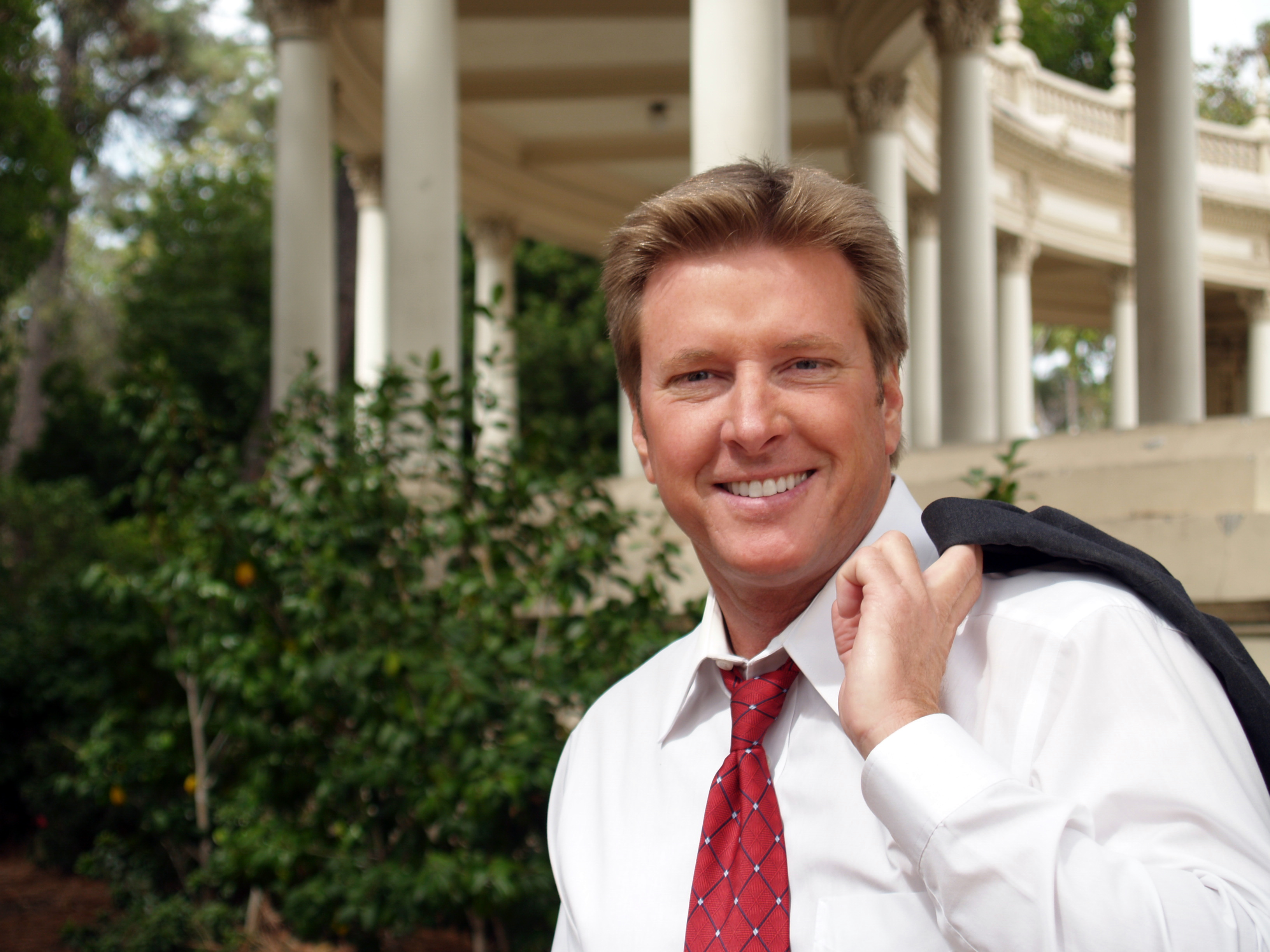 I took this photo of Joe Lizura as he was about to go live in San Diego to do his weather on TV.